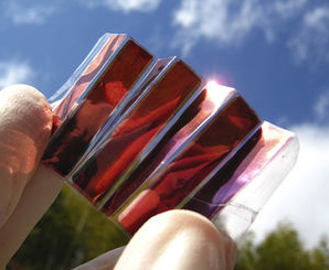 Portable paper solar cells based on foldable and lightweight transparent conductive nanofiber paper